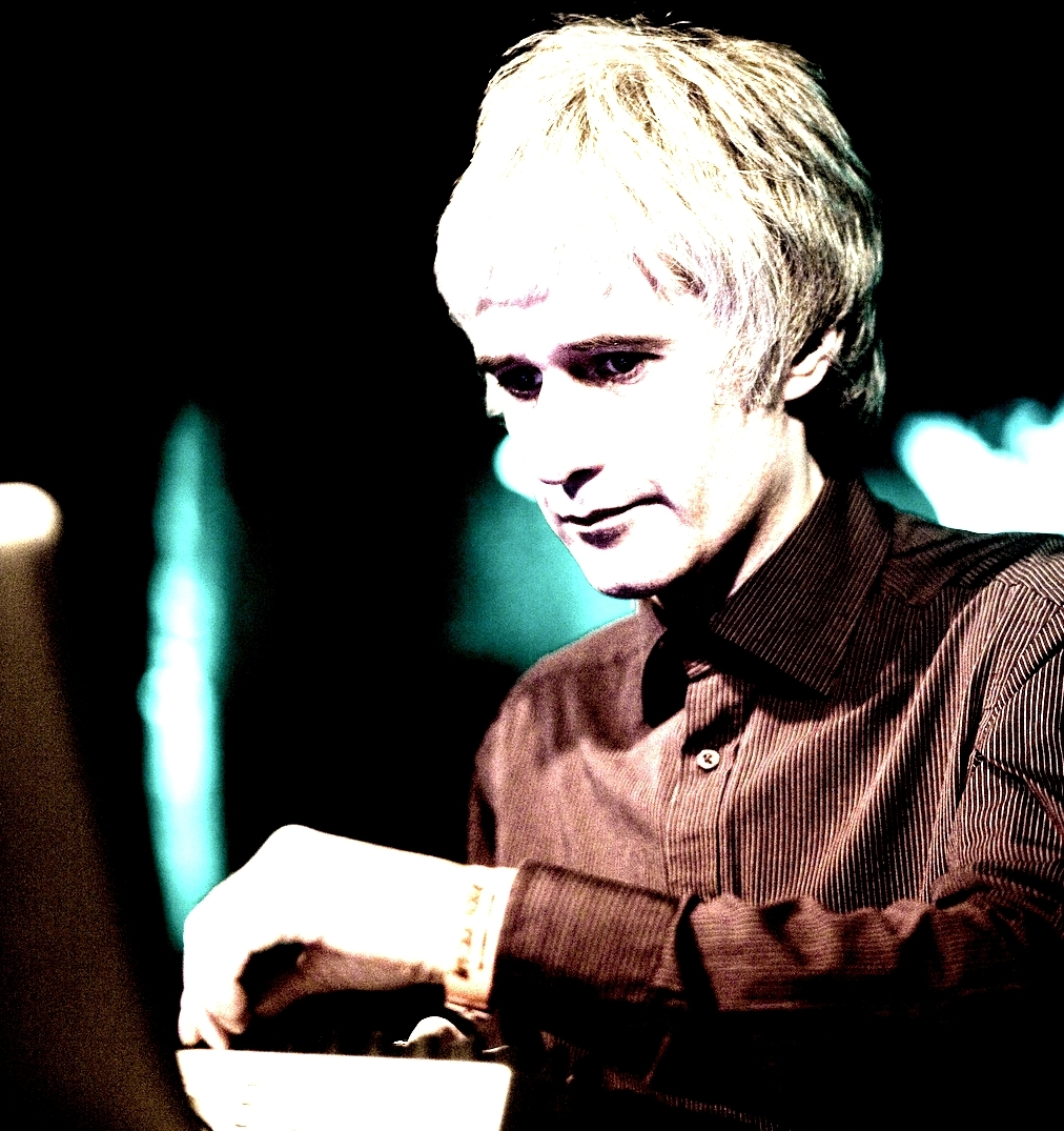 Robert Hampson - Incubate festival 2010